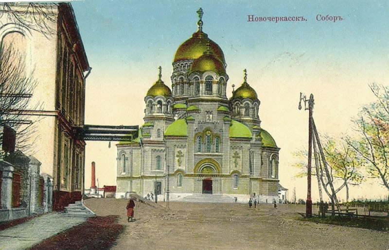 Novocherkassk Cathedral. Pre-1917 postcard Flickr data on 2011-08-13 Tags: postcard, Novocherkassk, Cathedral License: CC BY-SA 2.0 User: paukrus Ruslan